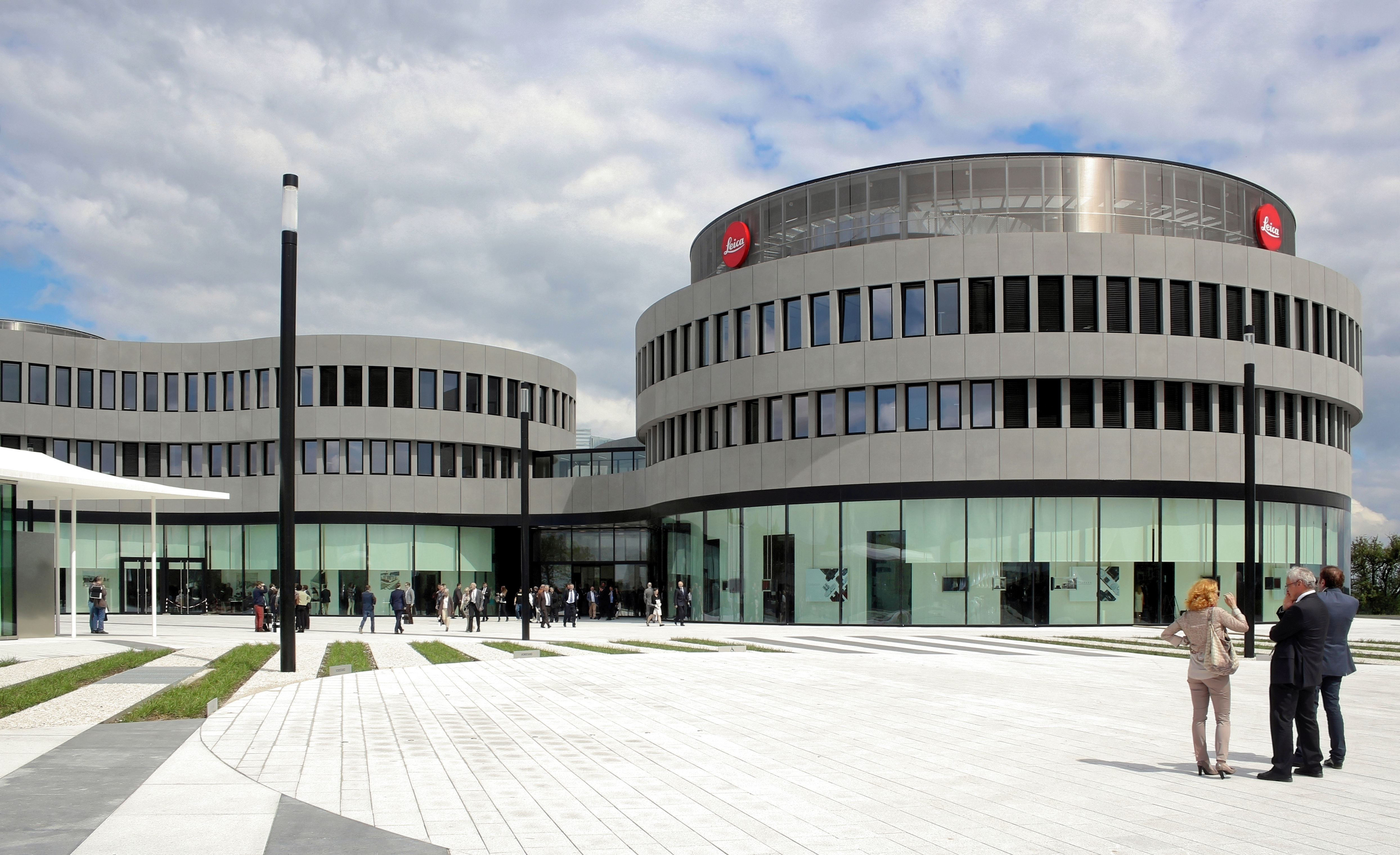 The 2014 built Leica World in Wetzlar of the Leica Camera AG. Architects: Gruber + Kleine-Kraneburg